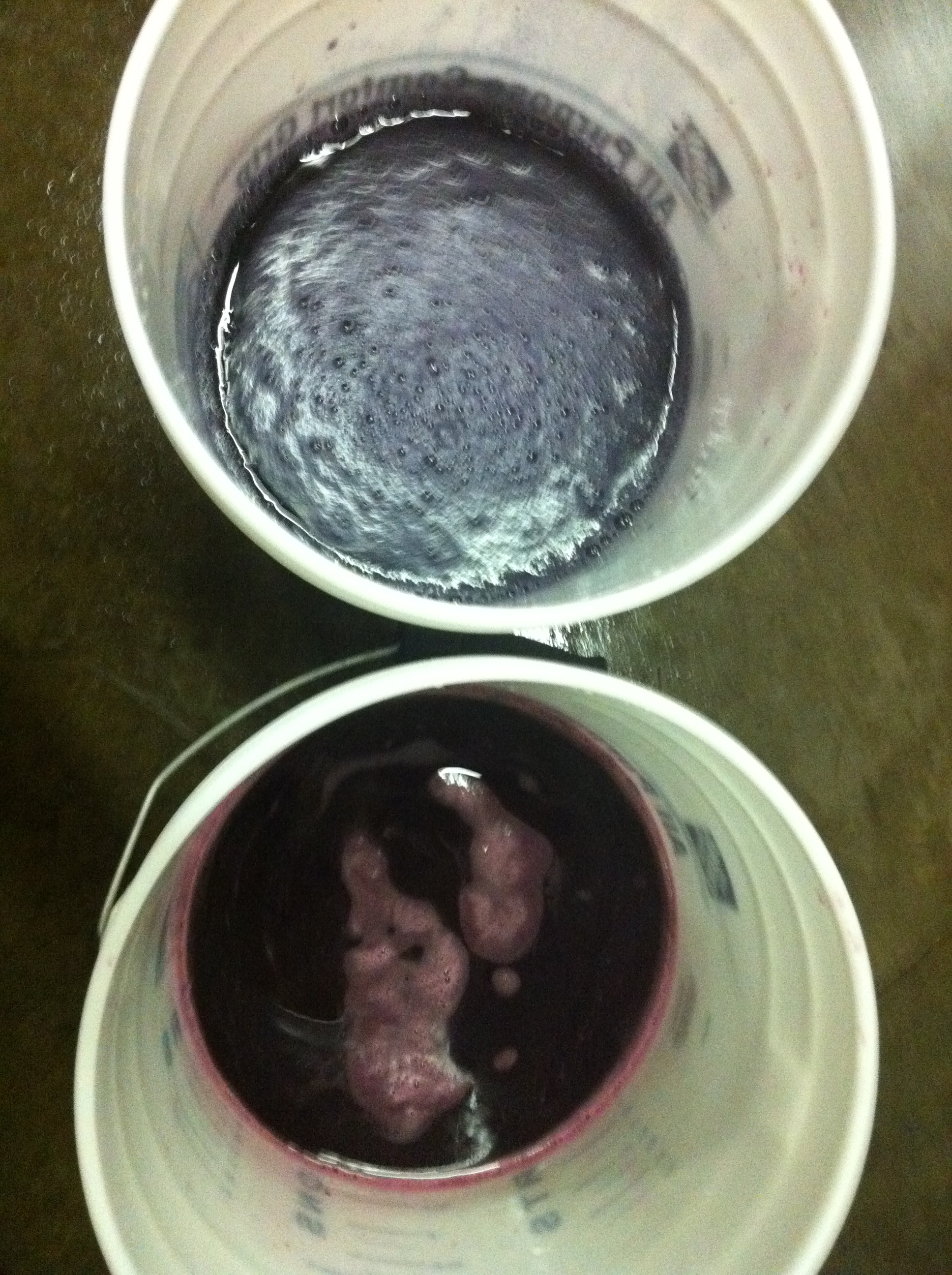 Buckets of red wine must with the top bucket having had diammonium phosphate added to it while the bottom bucket is still just must. This demonstrates the color change of adding the DAP